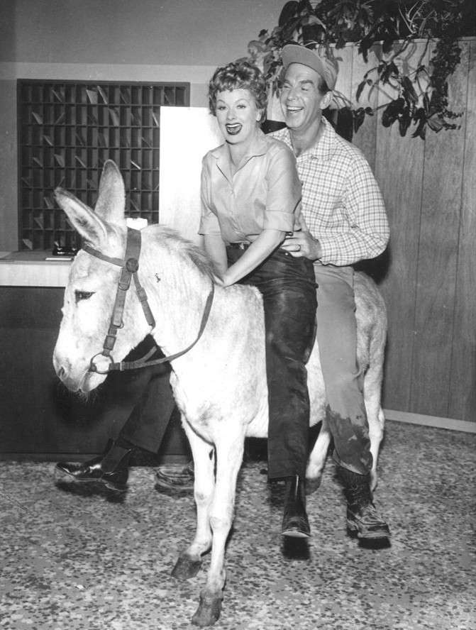 Publicity photo of Lucille Ball and Fred MacMurray from the television show. The Lucy-Desi Comedy Hour. In this episode, Ricky is booked to entertain at the Sands Hotel/Casino in Las Vegas. While there, Lucy wants to go uranium hunting. The Mertzes do too but Ricky is against it. After local news stories about uranium start appearing in the newspapers, Ricky changes his mind and hopes they can strike it rich.